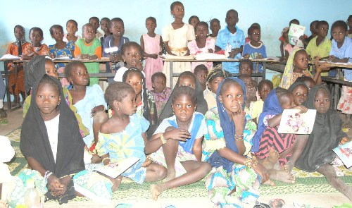 United States Embassy in Niger: Programs to improve young girls’ education will be a major focus of Niger’s MCC threshold grant